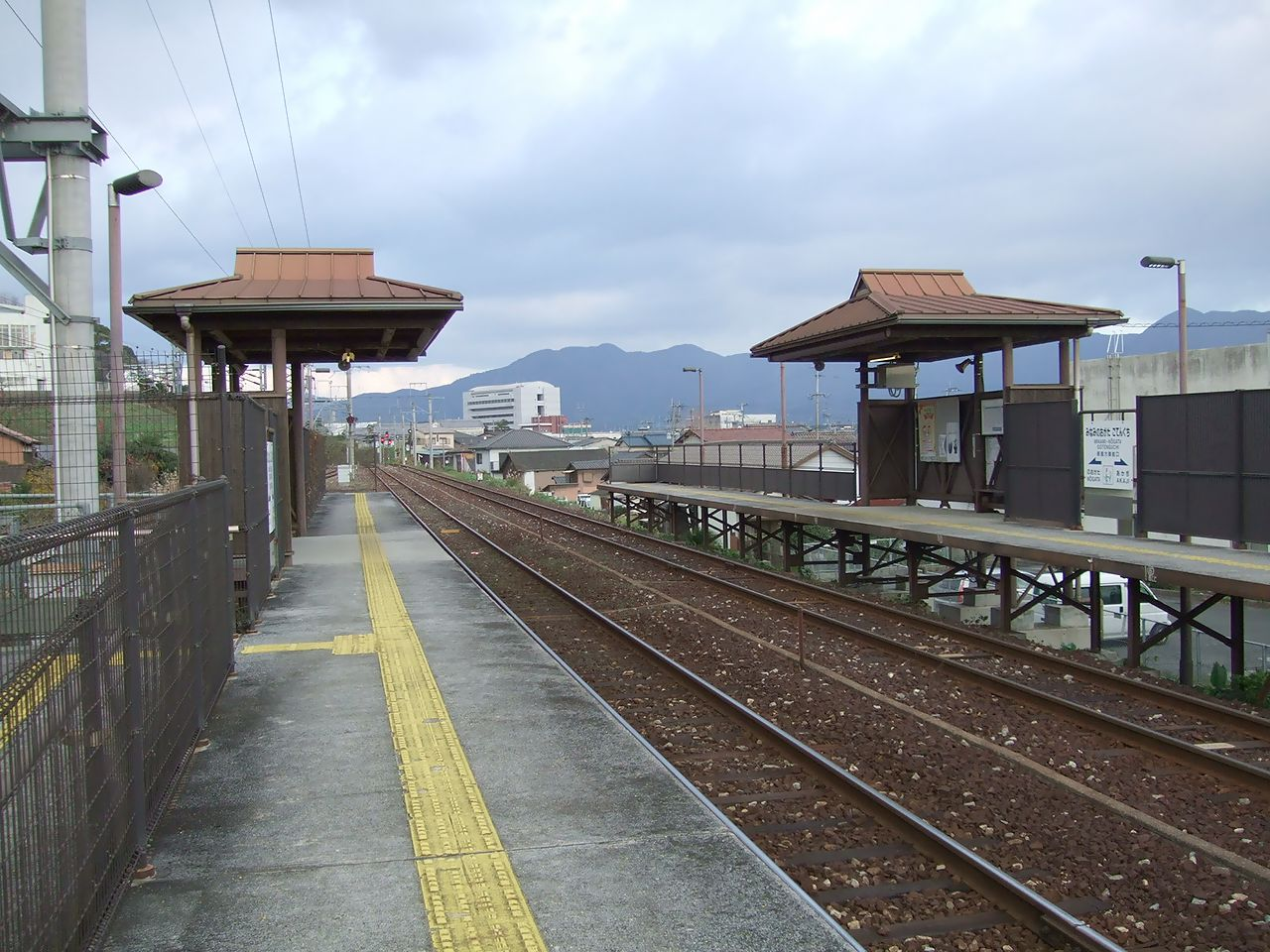 Minami-Nogata Gotenguchi Station on the Heisei Chikuho Railway Ita Line in Nogata City, Fukuoka Prefecture, Japan